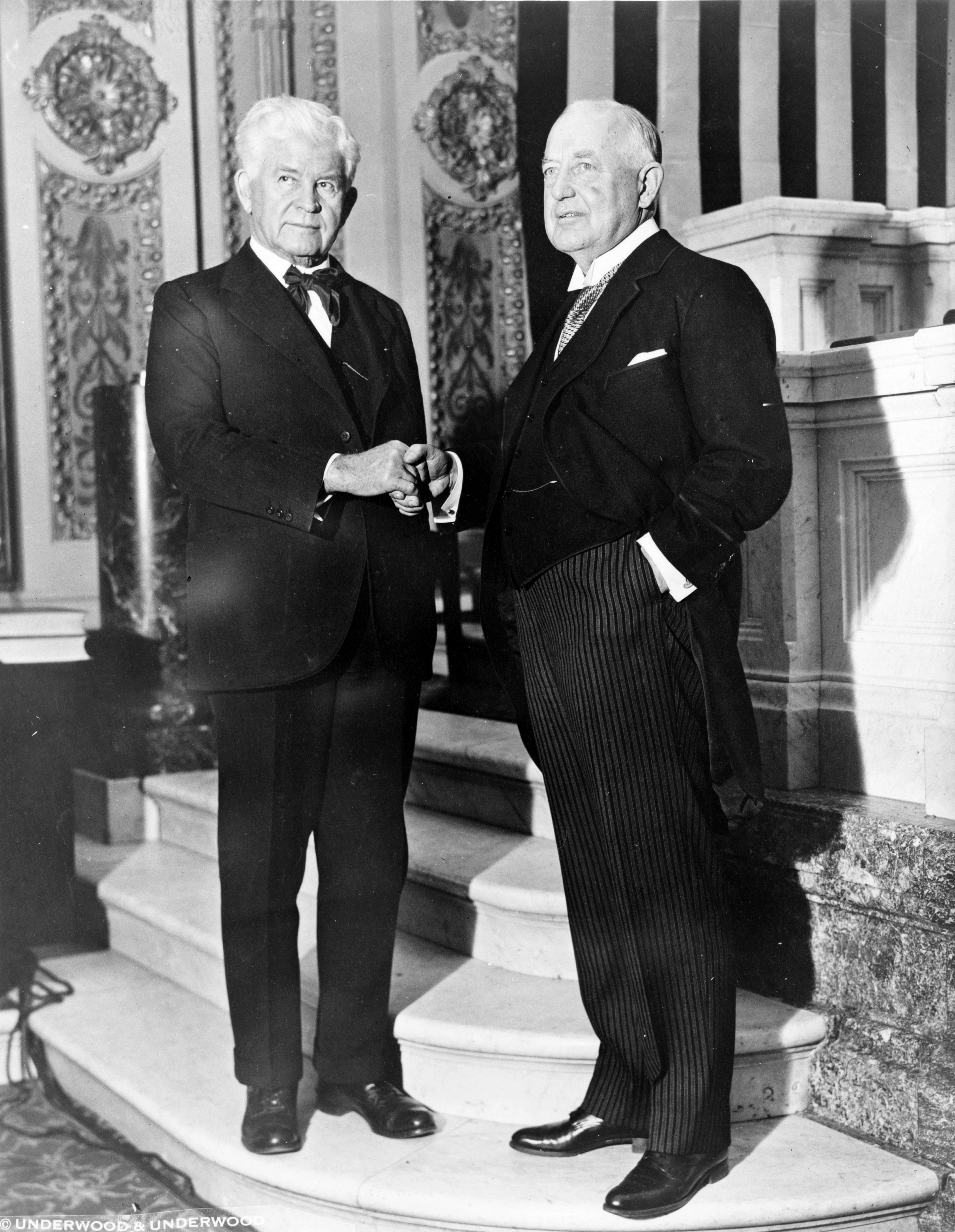 Henry Thomas Rainey (left) shaking hands with Bertrand Snell